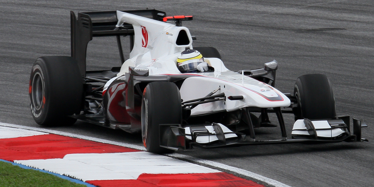 Formula One 2010 Rd.3 Malaysian GP: Pedro de la Rosa (BMW Sauber) during Saturday 3rd Free Practice session.